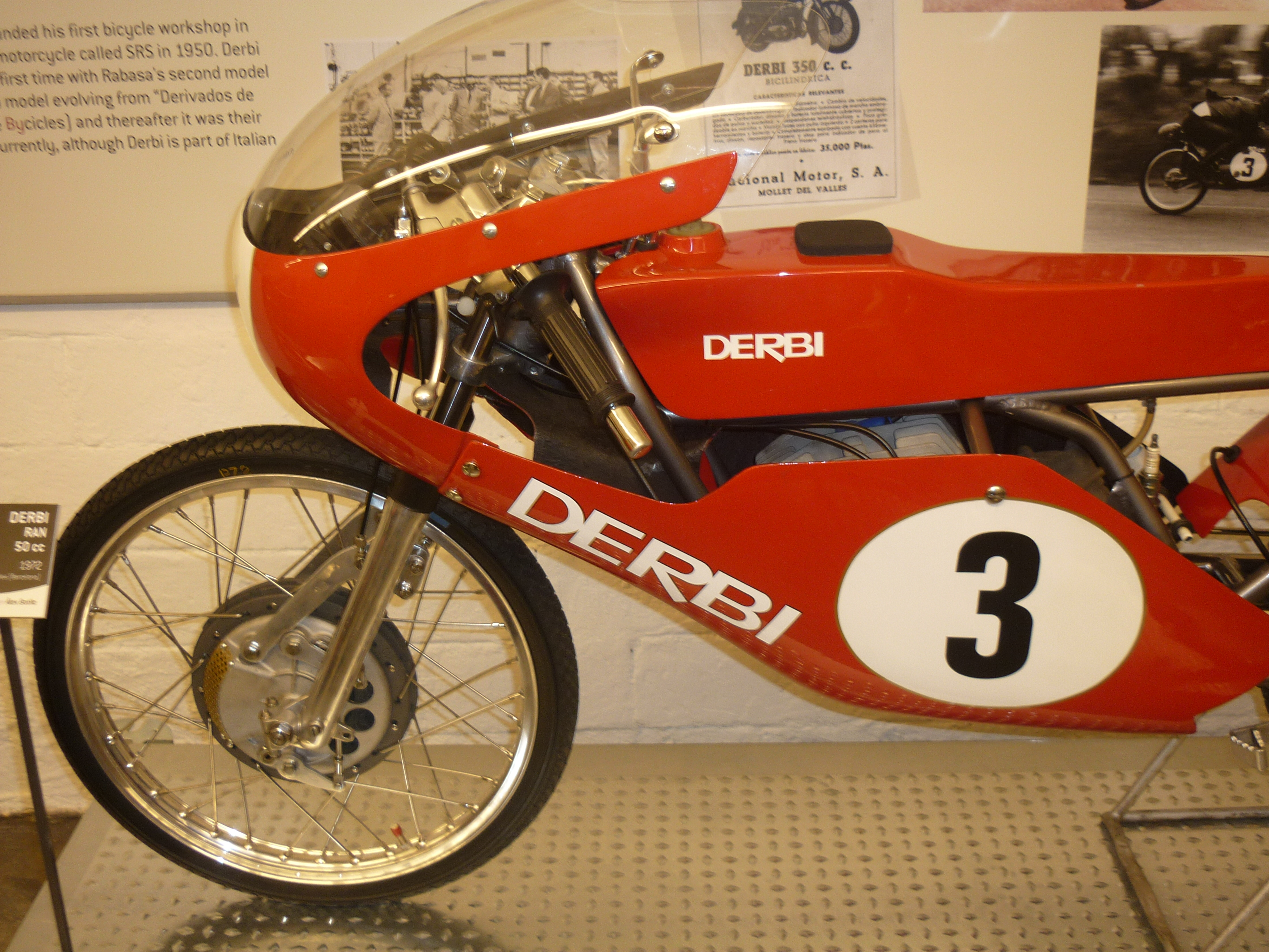 Derbi RAN ("Replica Angel Nieto") 50cc (1972). Fairing view.Museu de la Moto de Barcelona (Catalonia).